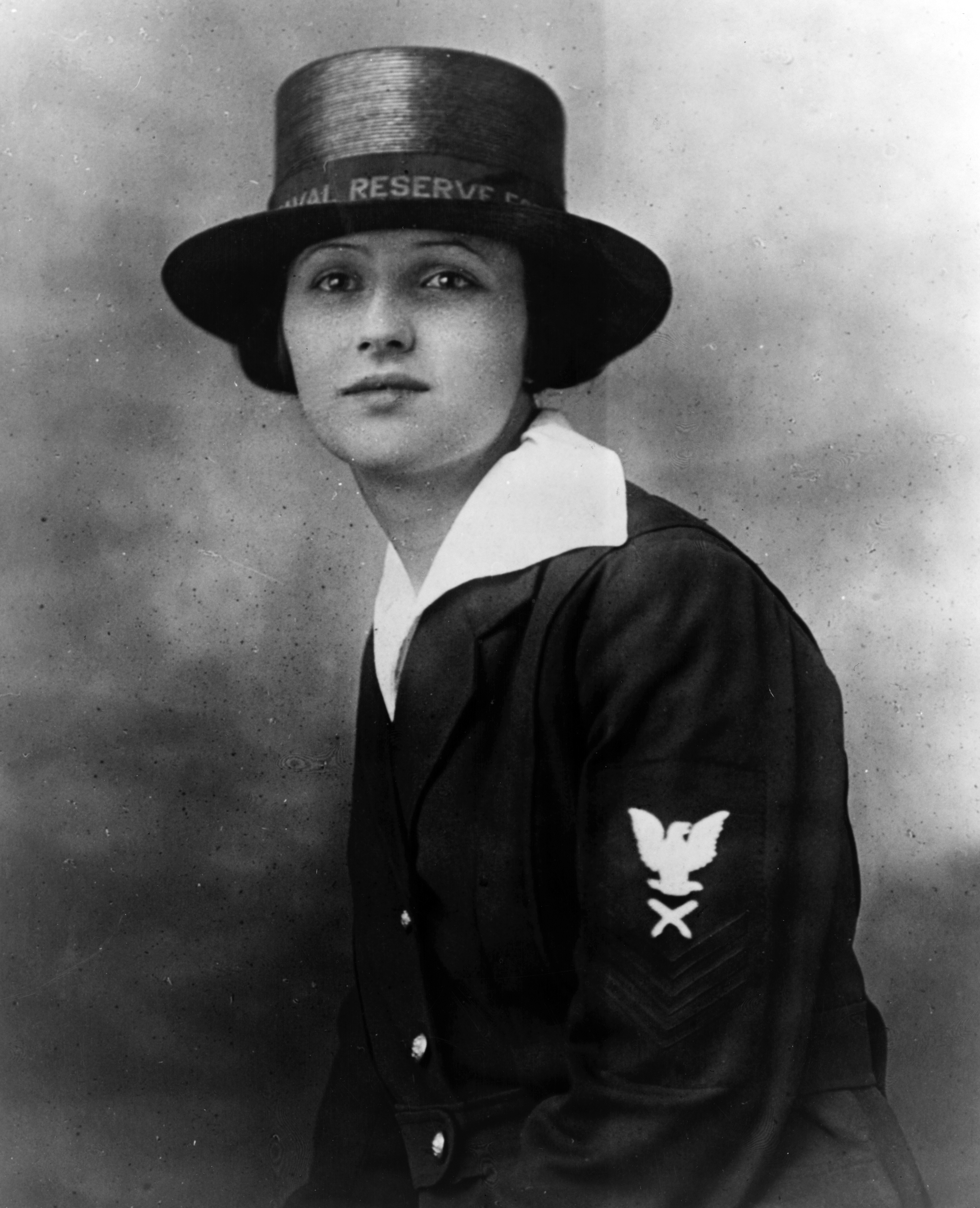 Joy Bright Hancock, Yeoman First Class, USNR, half-length portrait, facing front, body turned to left profile, wearing uniform. Official U.S. Navy photograph file no. WA-WW-3-13993.